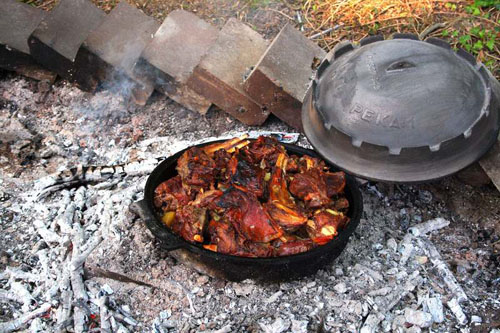 Meat dish cooked in a Sač